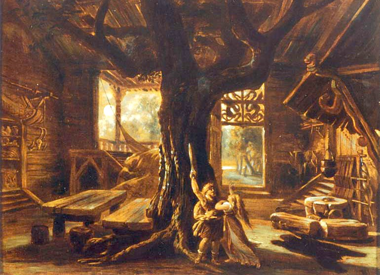 Hoffman's oil sketch of the final part of act 1 of Die Walküre: Siegmund embraces Sieglinde in Hunding's hall under a large tree.